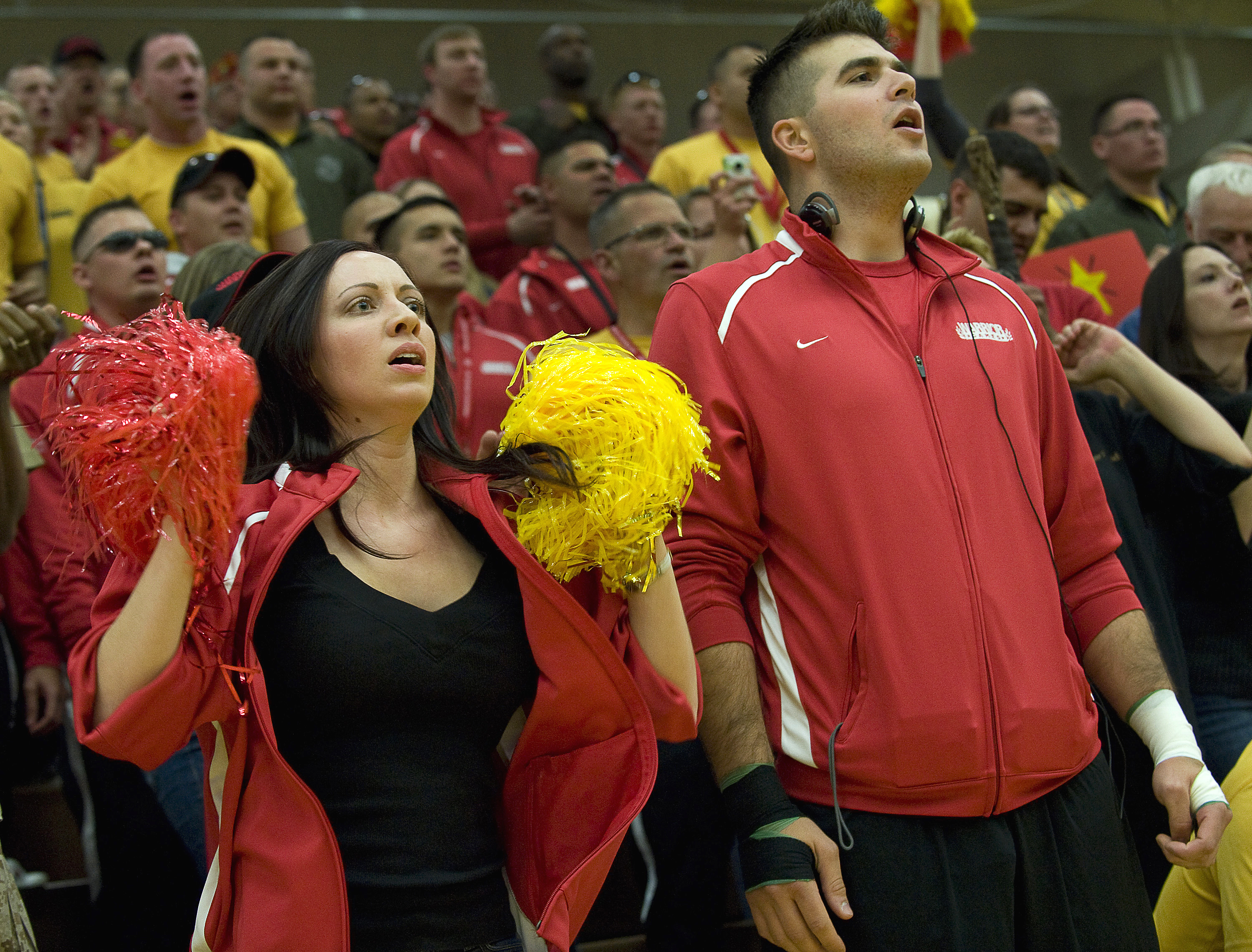 Fans watch in anticipation of the final point being scored during the championship game against the Army during the inaugural Warrior Games sitting volleyball competition at the Warrior Games in Colorado Springs, Colo., May 13, 2010. The Marines went on to win the game winning the gold medal.